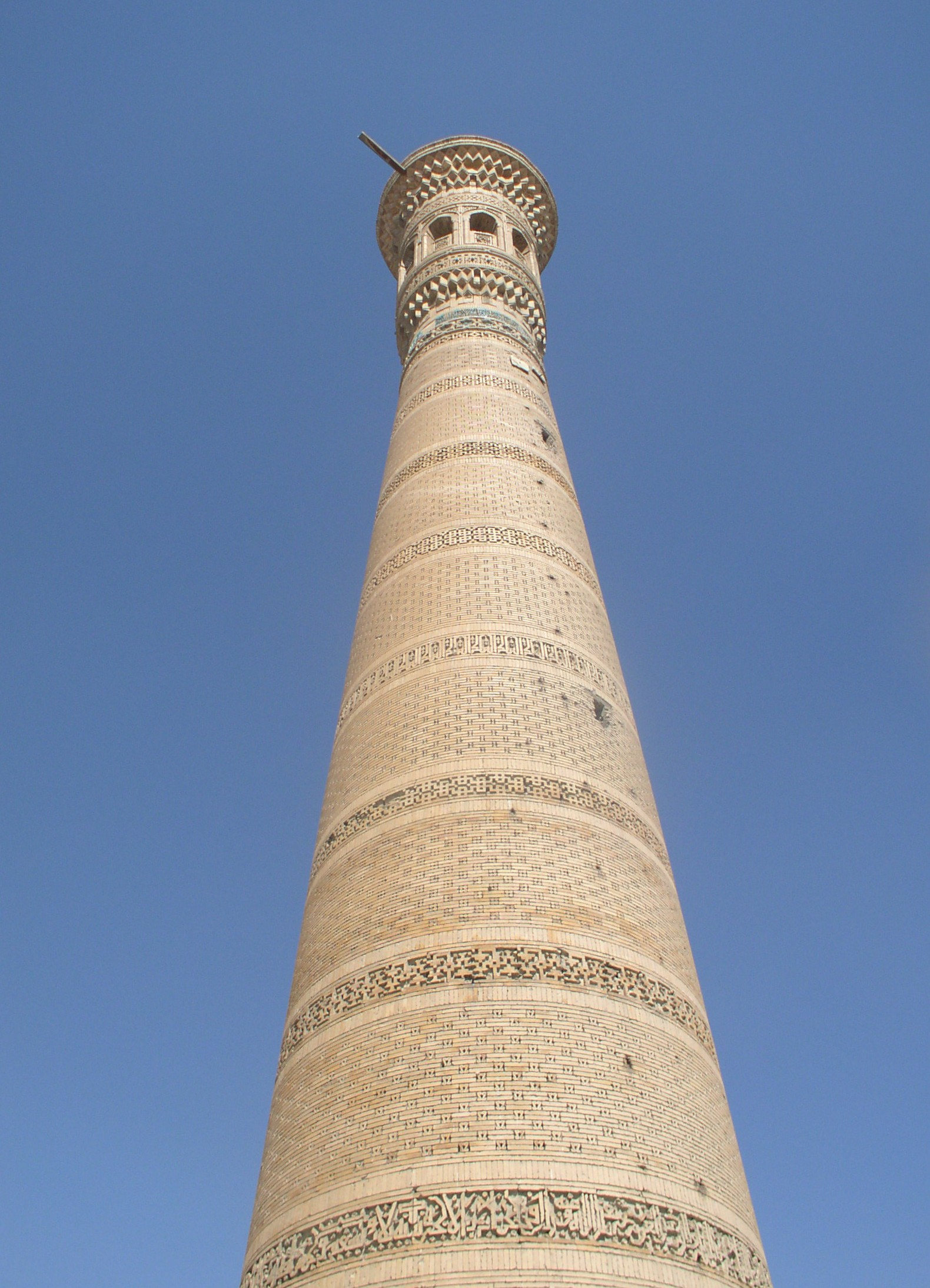 minaret in Vobkent, Uzbekistan. The date of the construction (1196-1198) and the name of the contractor are written in Kufic and Diwani styles on the decorative belts of the minaret.